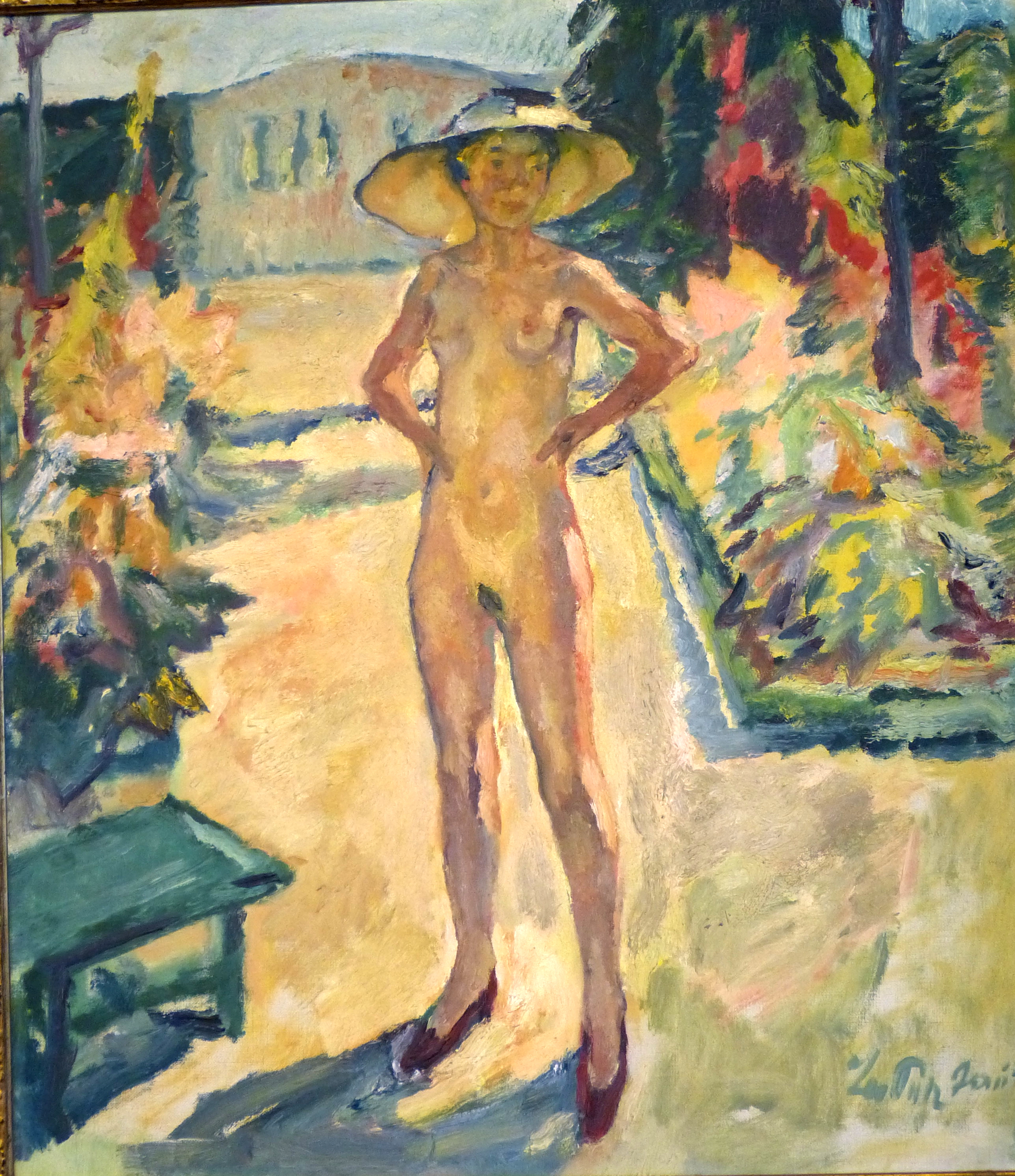 Herrenchiemsee abbey ( Upper Bavaria ). Collection "Painters of Chiemsee" - "In the garden" ( 1924 ) by Leo Putz